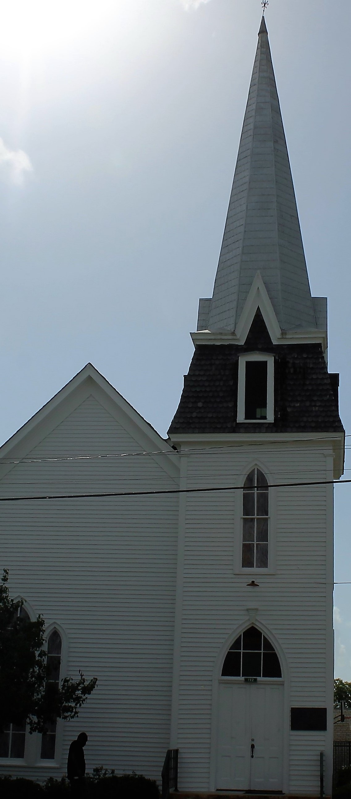 First Presbyterian Church of Giddings, TX